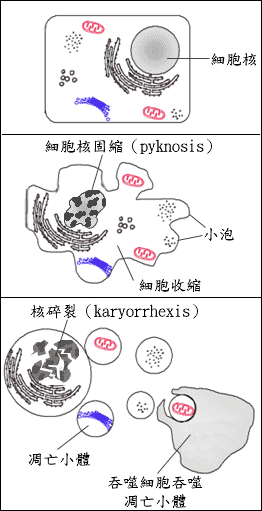 Chinese version of File:Apoptosis.png, a picture in the public domain.